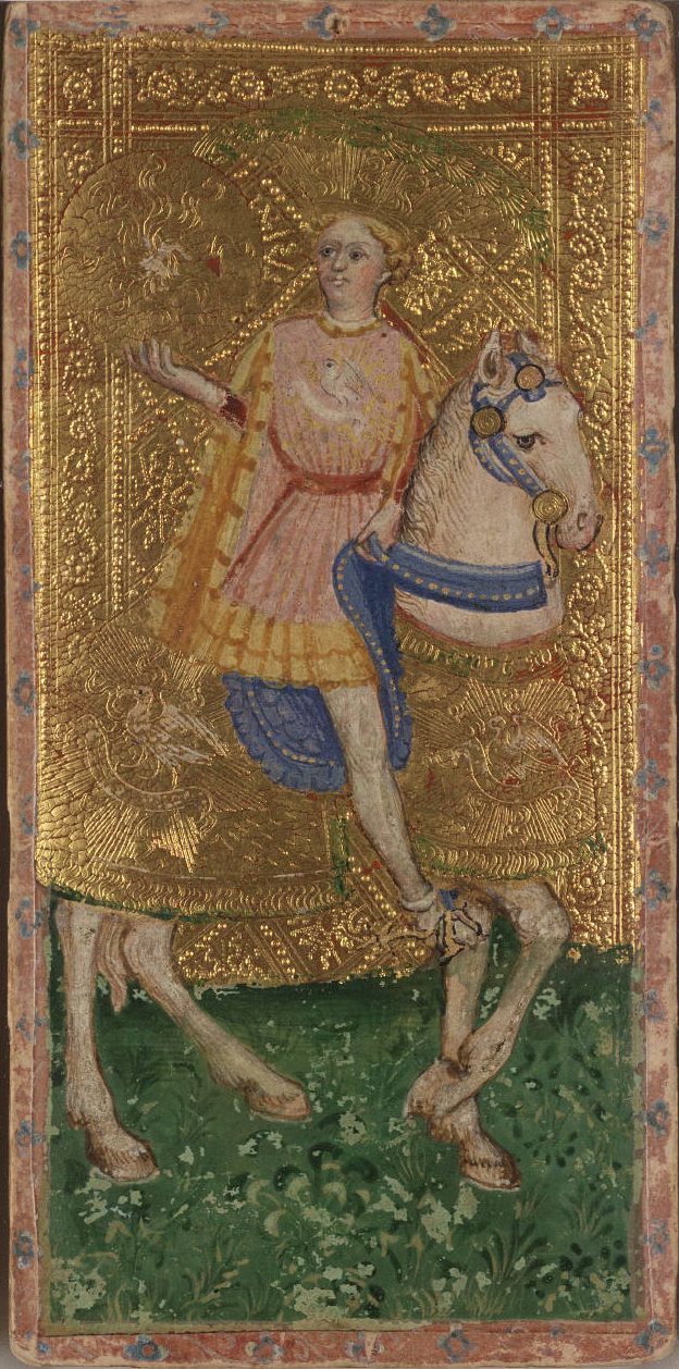 Knight of Coins (Diamonds) from the Visconti tarot deck